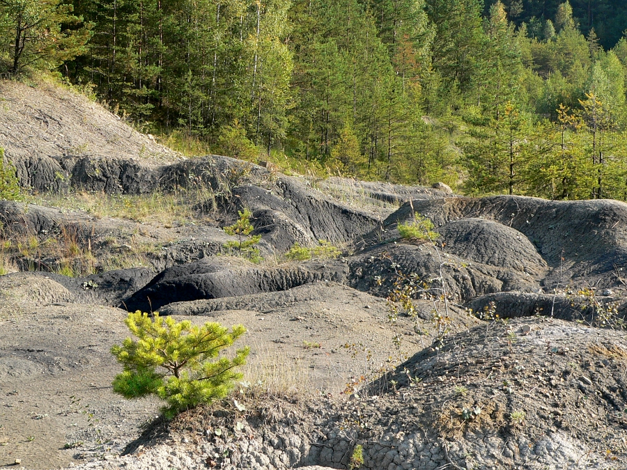 The landscape of the Gagaty Sołtykowskie nature reserve, Poland